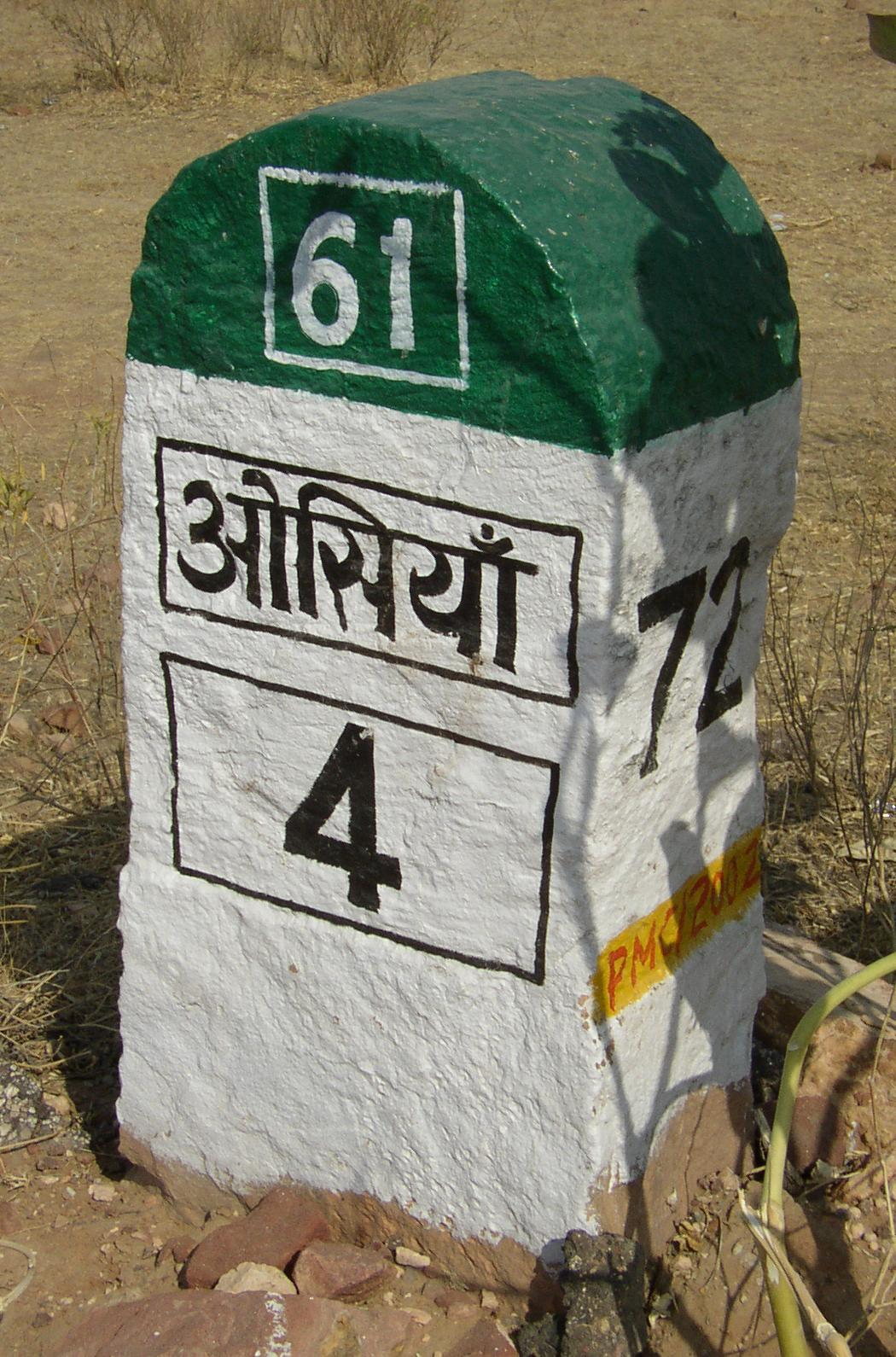 Kilometre sign near Osian in Rajasthan, India